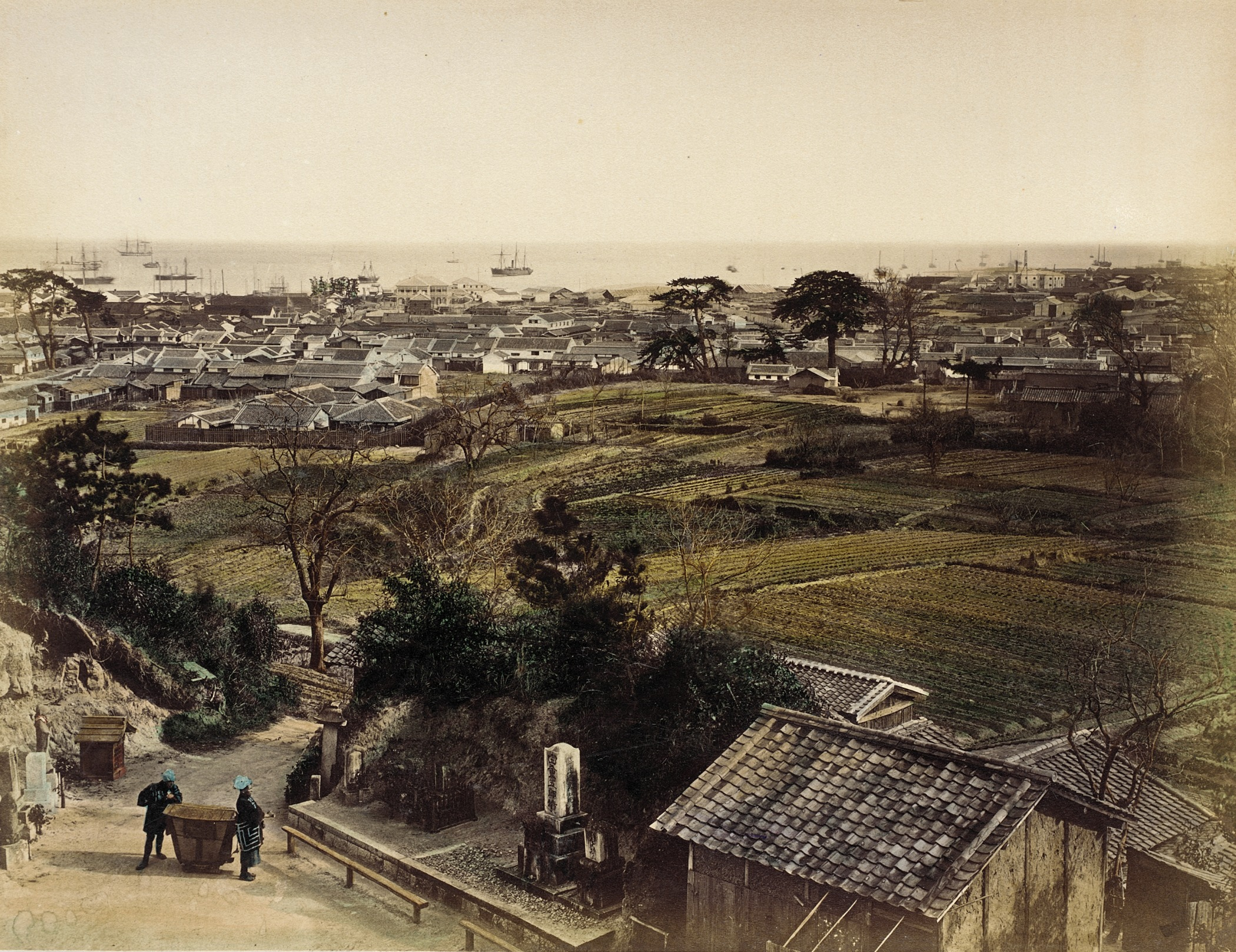 1865 Photographs Albumen print, hand-colored Unframed: 8 1/4 x 10 1/2 in. (20.96 x 26.67 cm) Gift of Mrs. Ruthe Feldman in memory of Philip Feldman (M.91.377.8) Photography